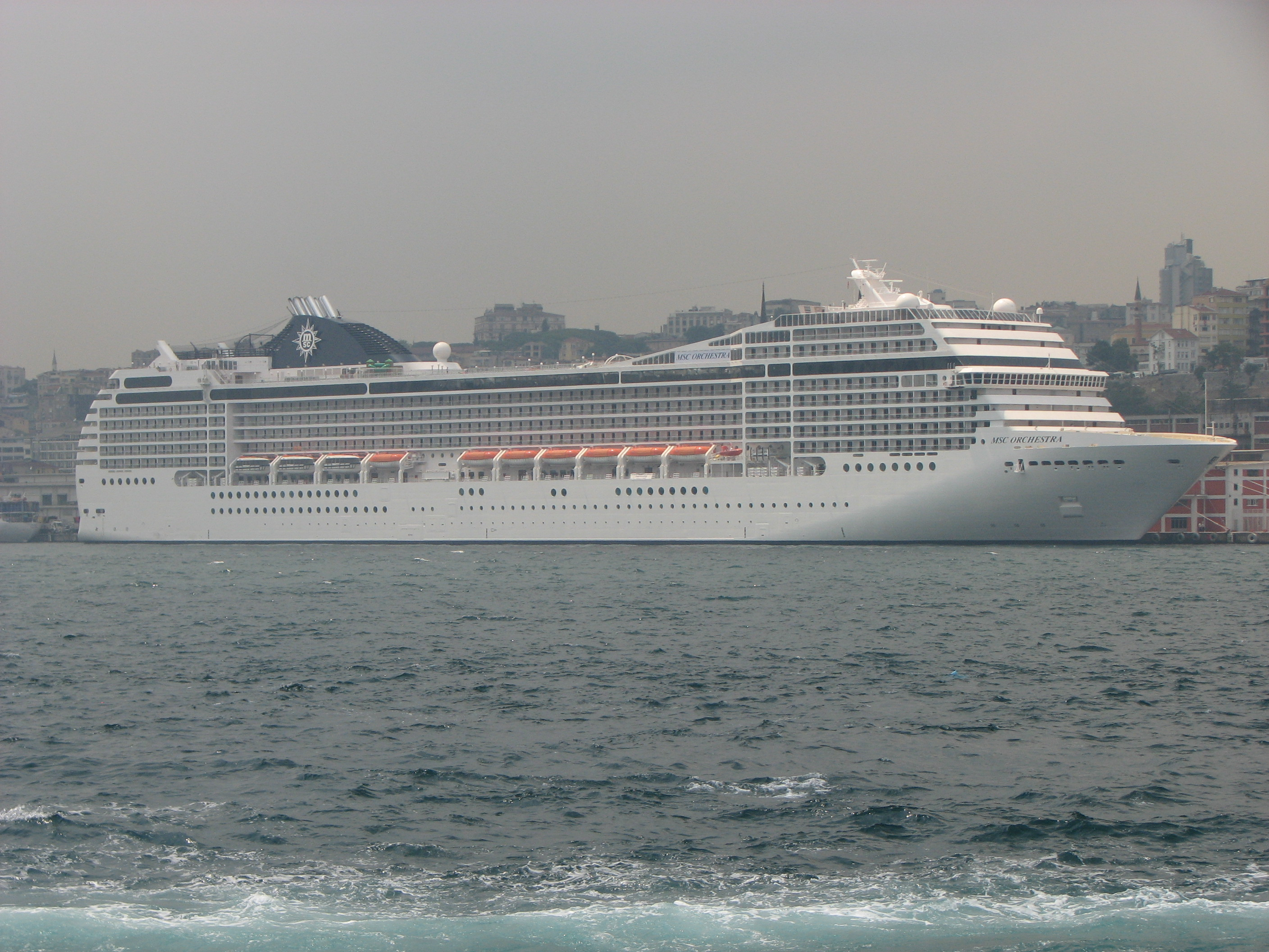 MSC Orchestra at Istanbul